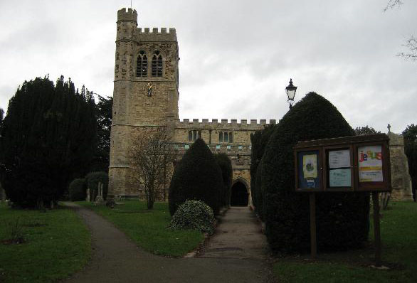 A picture of St Mary's Bletchley